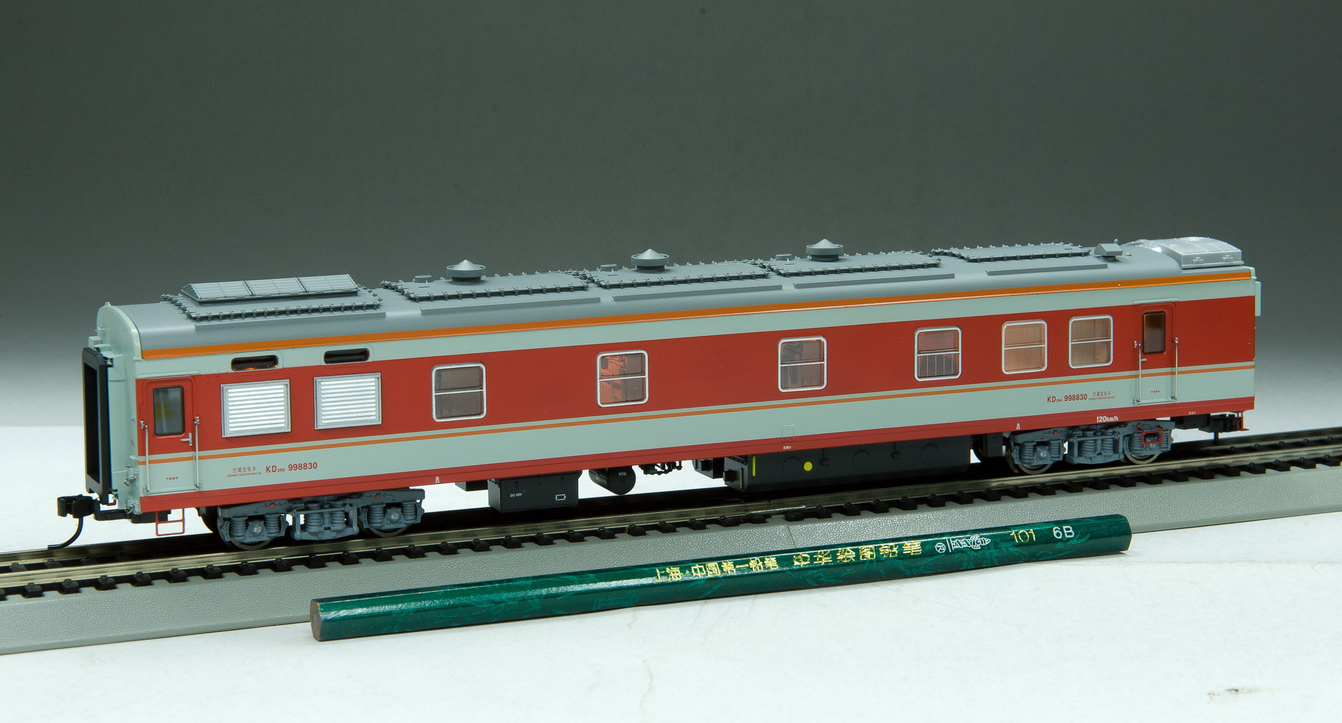 A rolling stock of HO scale and a pencil.